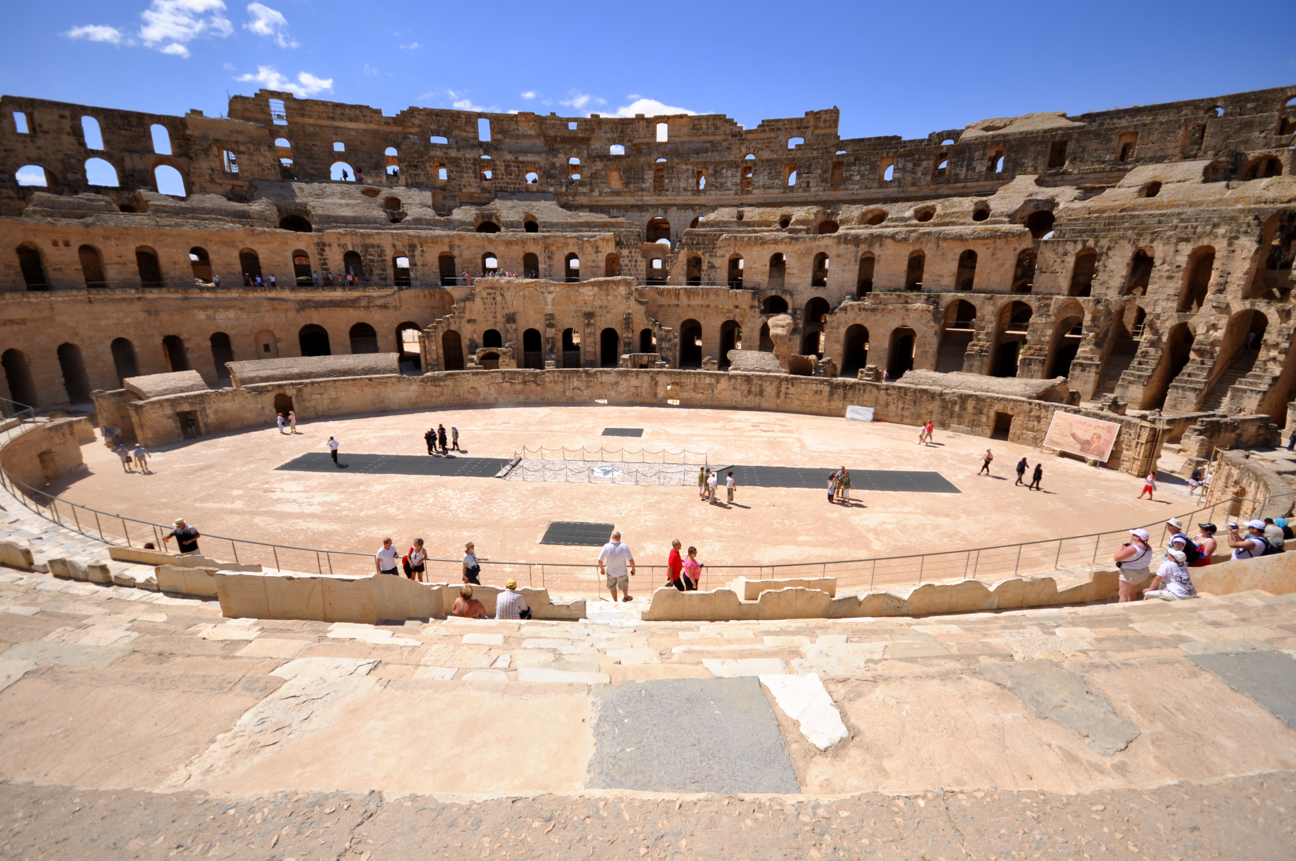 View of the El Jem Amphitheater arena